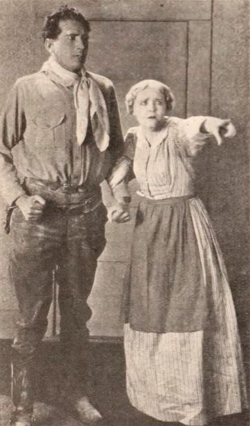 Still from the American western film Blue Blazes (1922) with Lester Cuneo and (?) Fanny Midgley, on page 78 of the May 21, 1921 Exhibitors Herald.